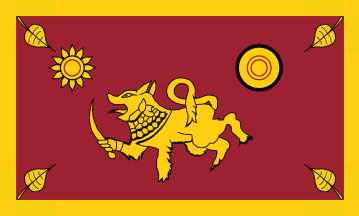 Flag of the Southern Province